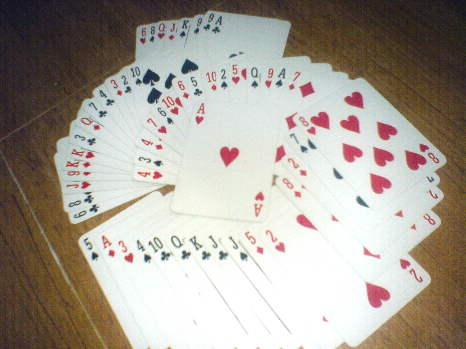 Typical Playing Cards. (An Anglo-American cards)